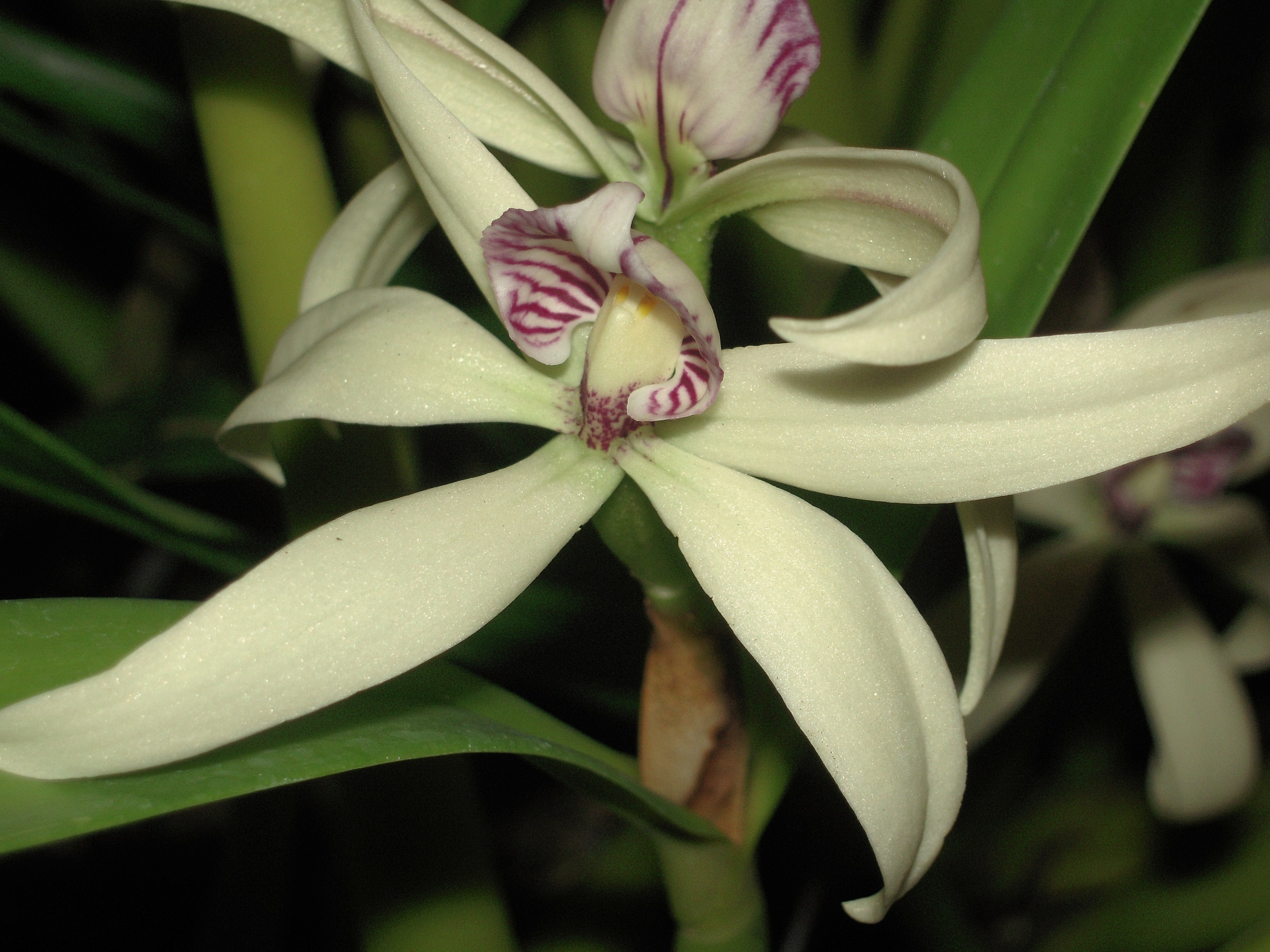 Prosthechea baculus or Encyclia pentotis, Epidendrum pentotis, or Anachelium baculus.